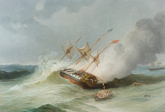 Oil on canvas.